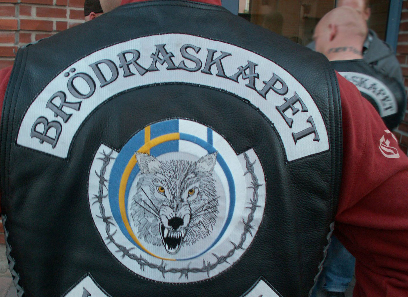 The Brotherhood, Sweden's first and most notorious prison gangs